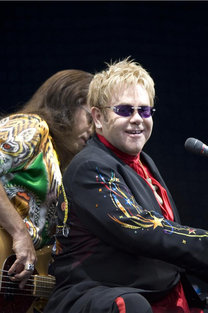 Elton John, English singer-songwriter and pianist, performing on stage at the Keepmoat Stadium, Doncaster, England.